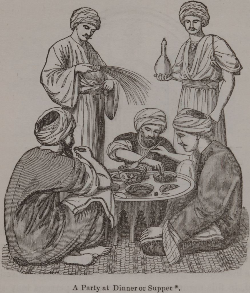 Three men sitting around a tray and having a meal. Two servants are holding an ewer and a fly whisk. Engraving (prints).